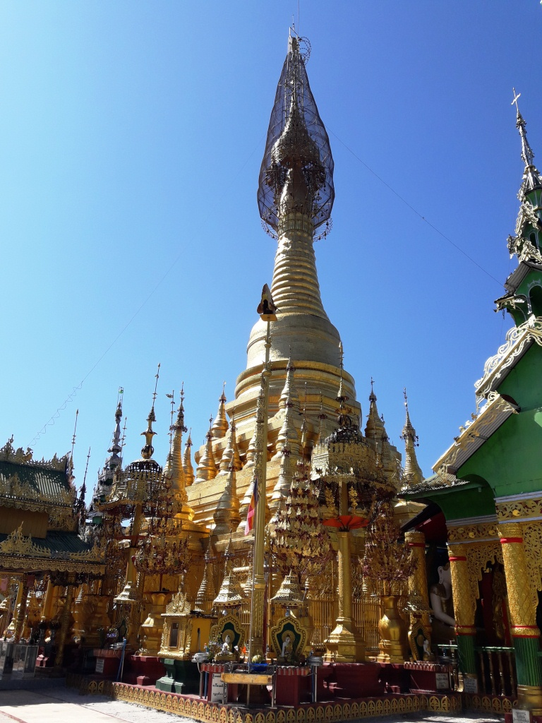 Shwenataung Pagoda, Myanmar